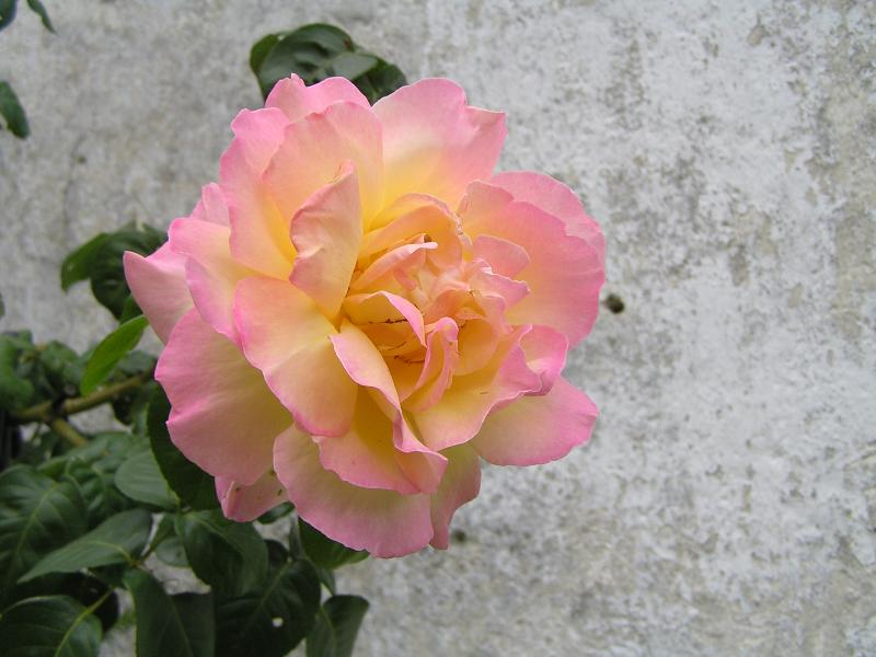 Mme Meilland,Peace